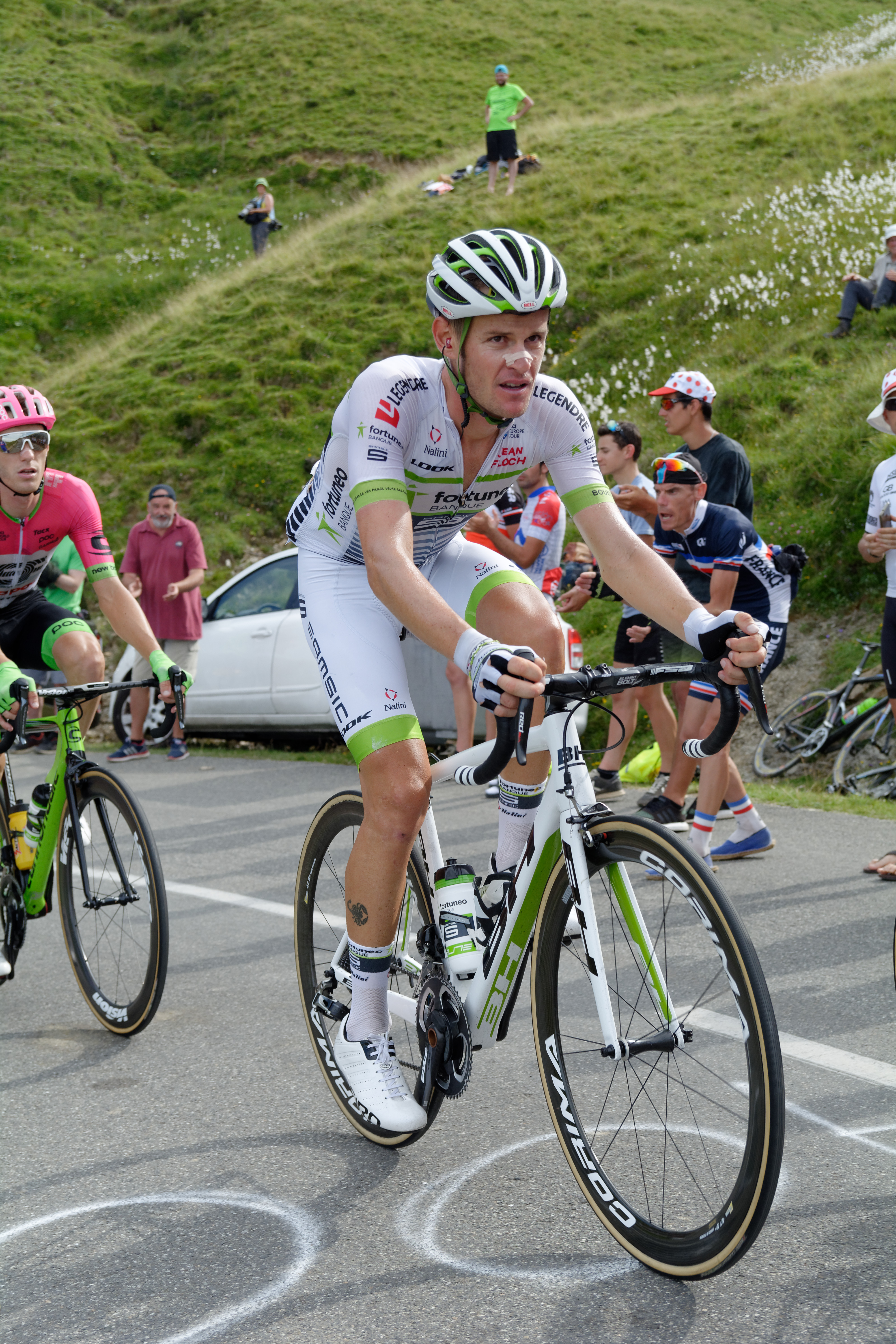 2018 Tour de France